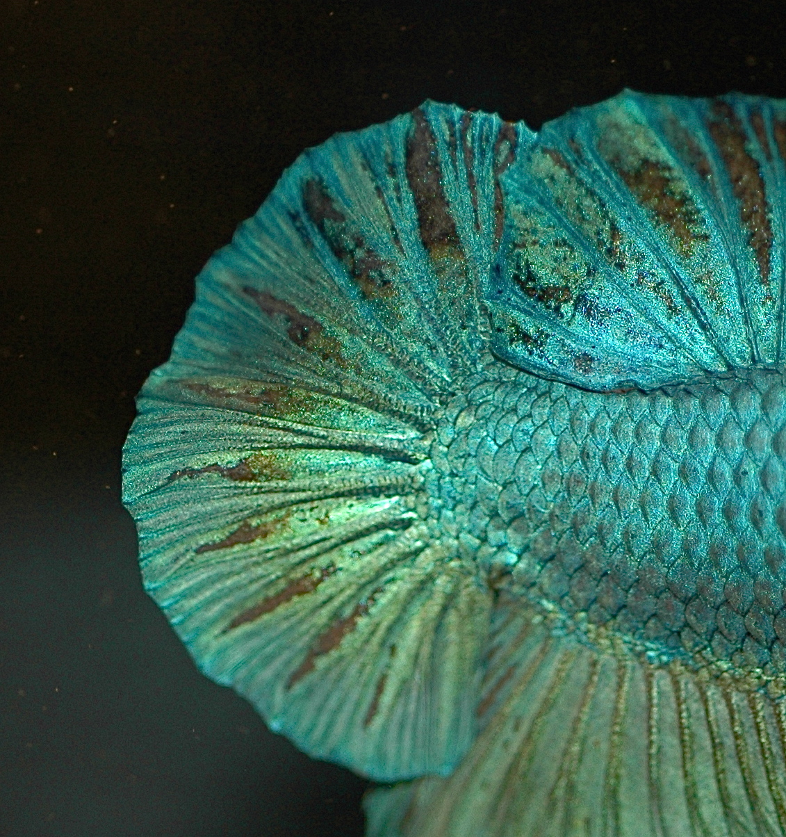 Siamese fighting fish Betta splendens, male, in an aquarium. Halfmoon plakat, tail detal.